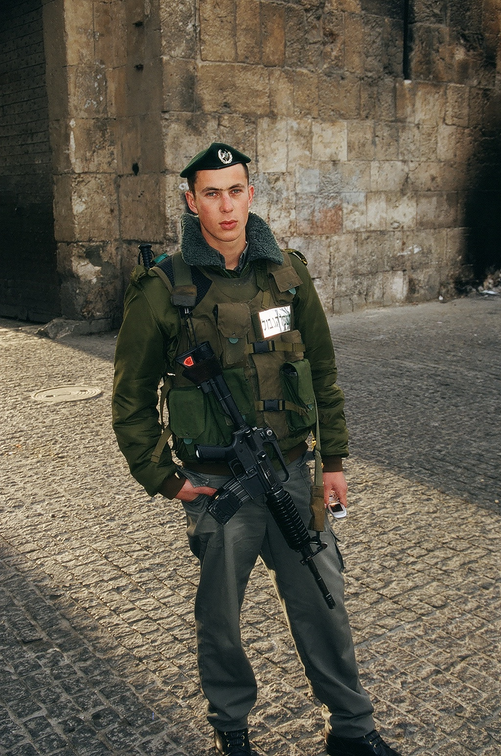 Old Jerusalem, Lions Gate - A Border Police soldier (Israel) - Israel 4th day (24 March 2005) photo number 021